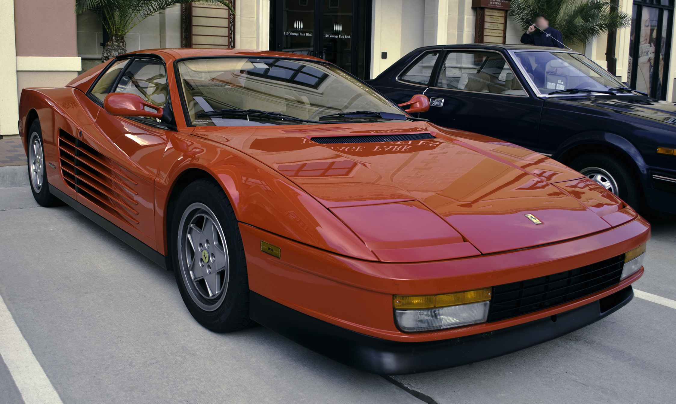 Ferrari Testarossa (in front of an early Honda Prelude) at the Houston Coffee and Cars meet in January 2012